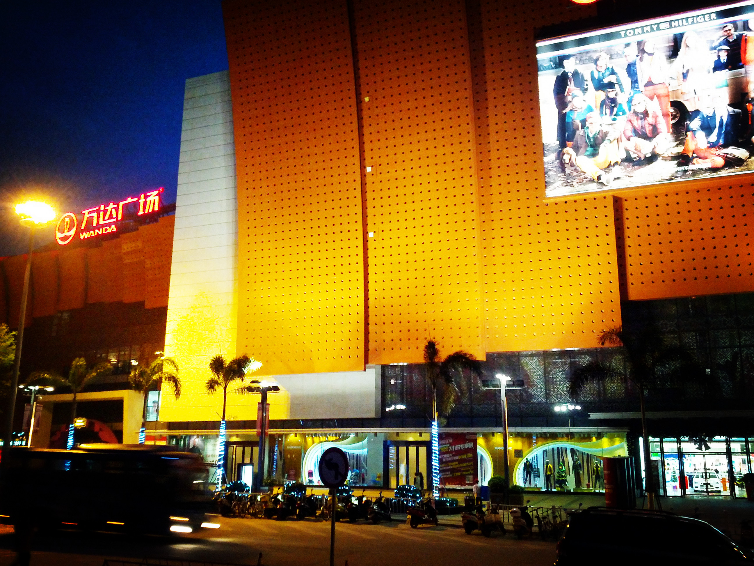 Wanda Plaza in Jimei, Fujian